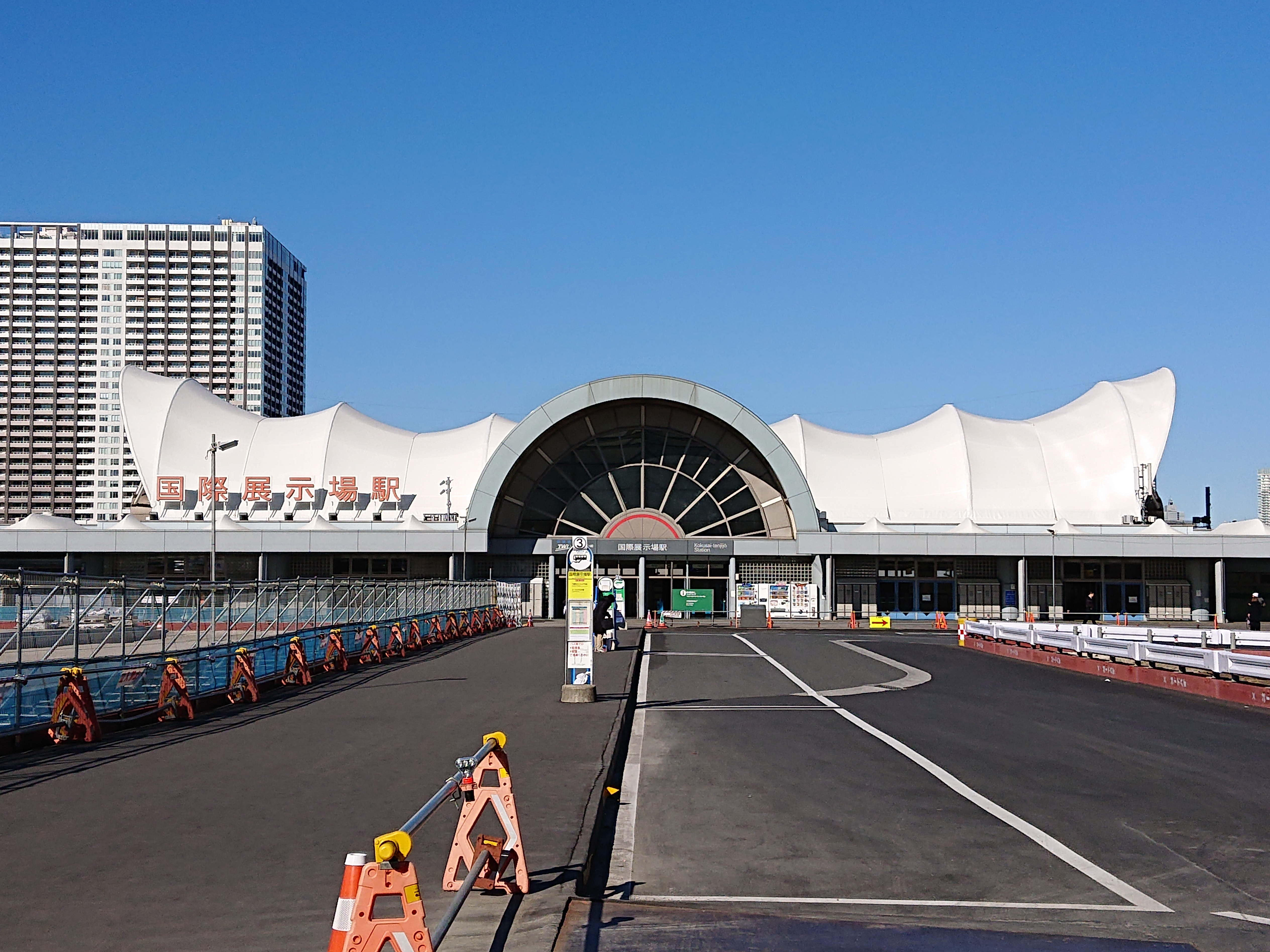 Kokusai-Tenjijō Station, located at 2-5-25 Ariake, Koto, Tokyo, Japan